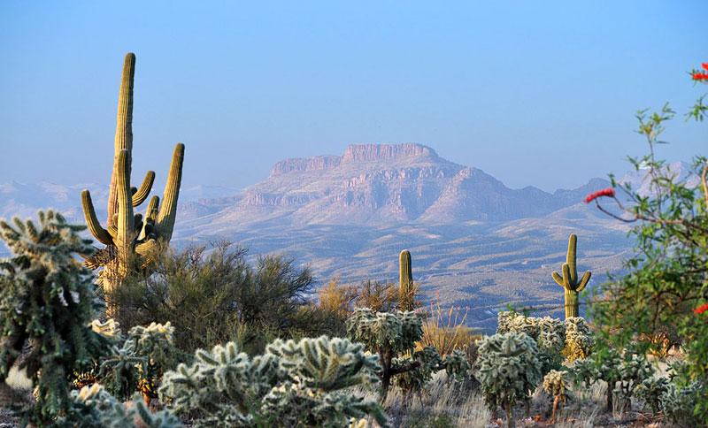 A desert view from Redington Road southeast of San Manuel, Arizona. The Galiuro Mountains are in the background.